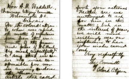 Altered Committee of Colored Citizens letter to Waddell. Nov. 9, 1898